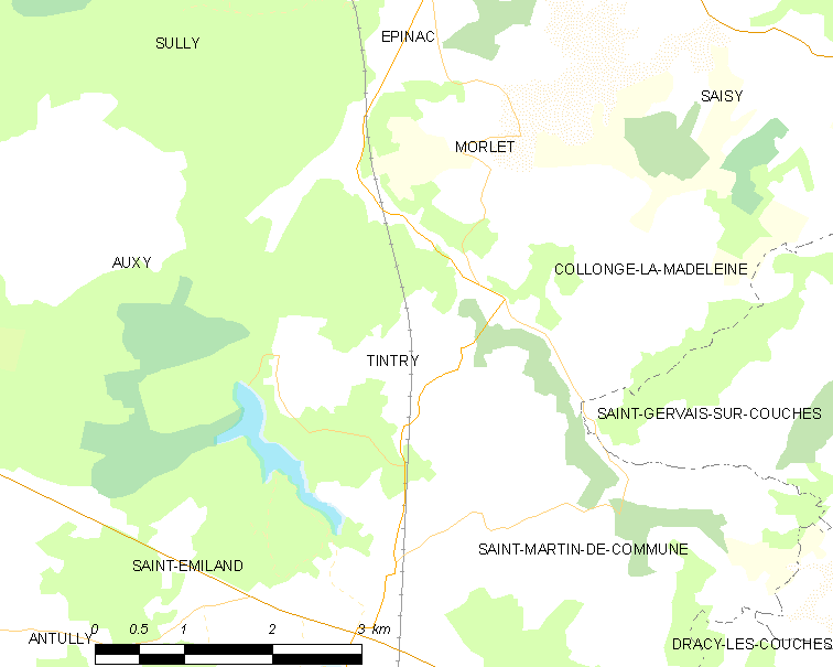 Map of French municipality